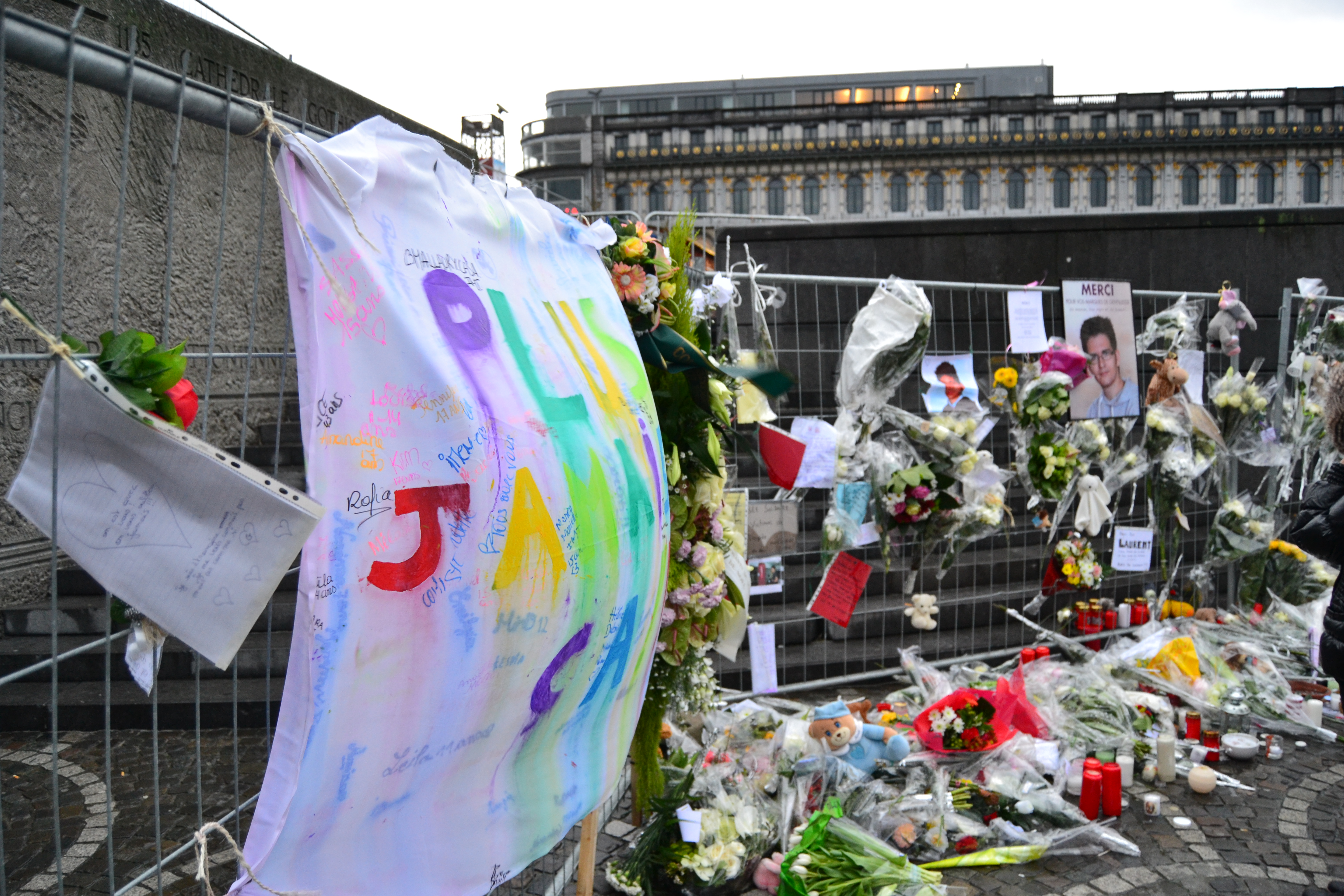 "Never that again !" : Bus stops of St Lambert Square in Liège, Belgium (13/12/2011 attack; 3 days later)